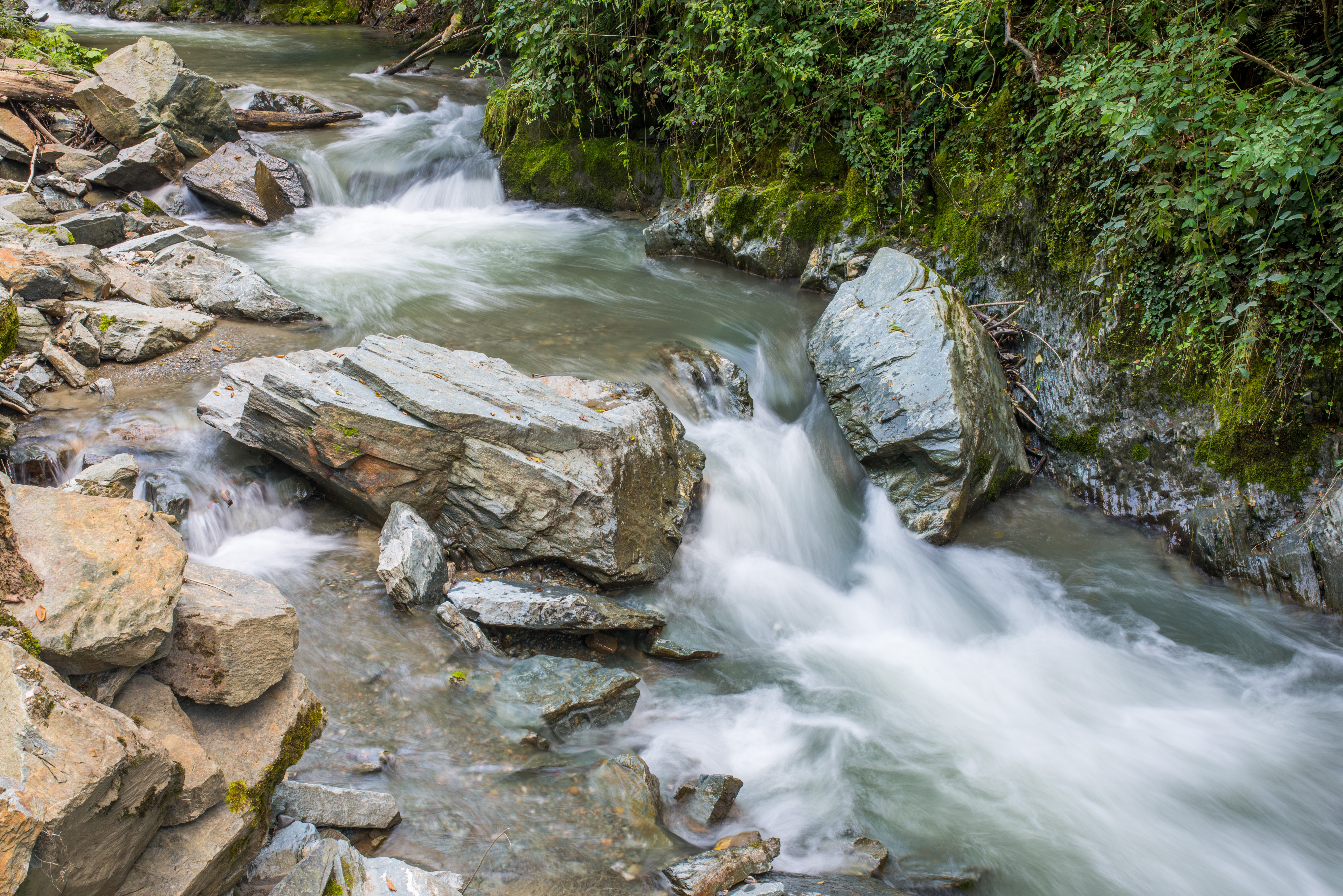 Tegošnica river bed. Srpski (latinica): Korito reke Tegošnice.